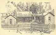 Nicholas C. Creede Cottage, Creede CO c. 1894